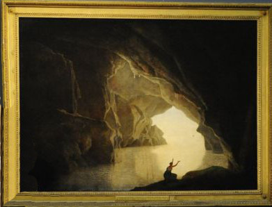 Joseph Wright of Derby. A Grotto in the Gulf of Salerno, with the Figure of Julia, Banished from Rome. exhibited 1780.from the collection of Gordon Meynell prior to auction in 2015.